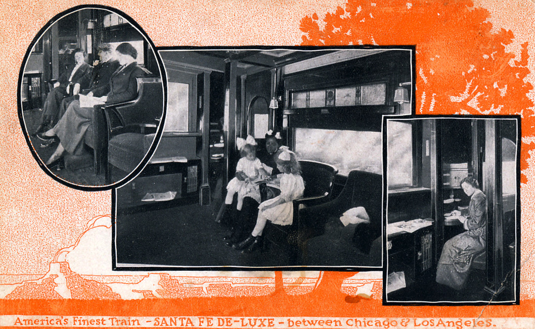 Postcard for the Santa Fe de-Luxe train. This was an early luxury train (extra fare) which left the rails in 1917, as it was determined not to be essential to the World War I effort.